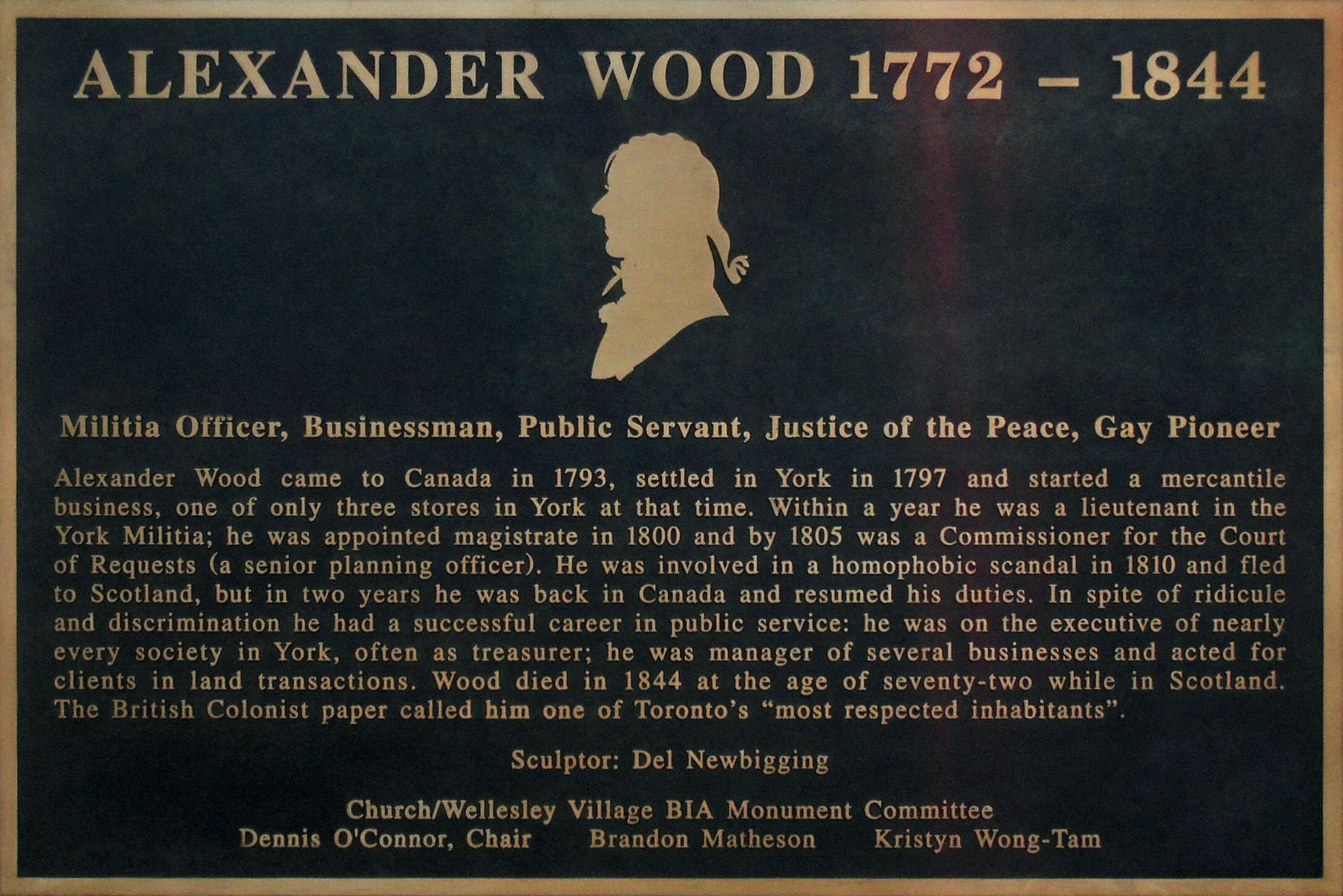 Alexander Wood plaque, Wood was a Canadian Gay pioneer